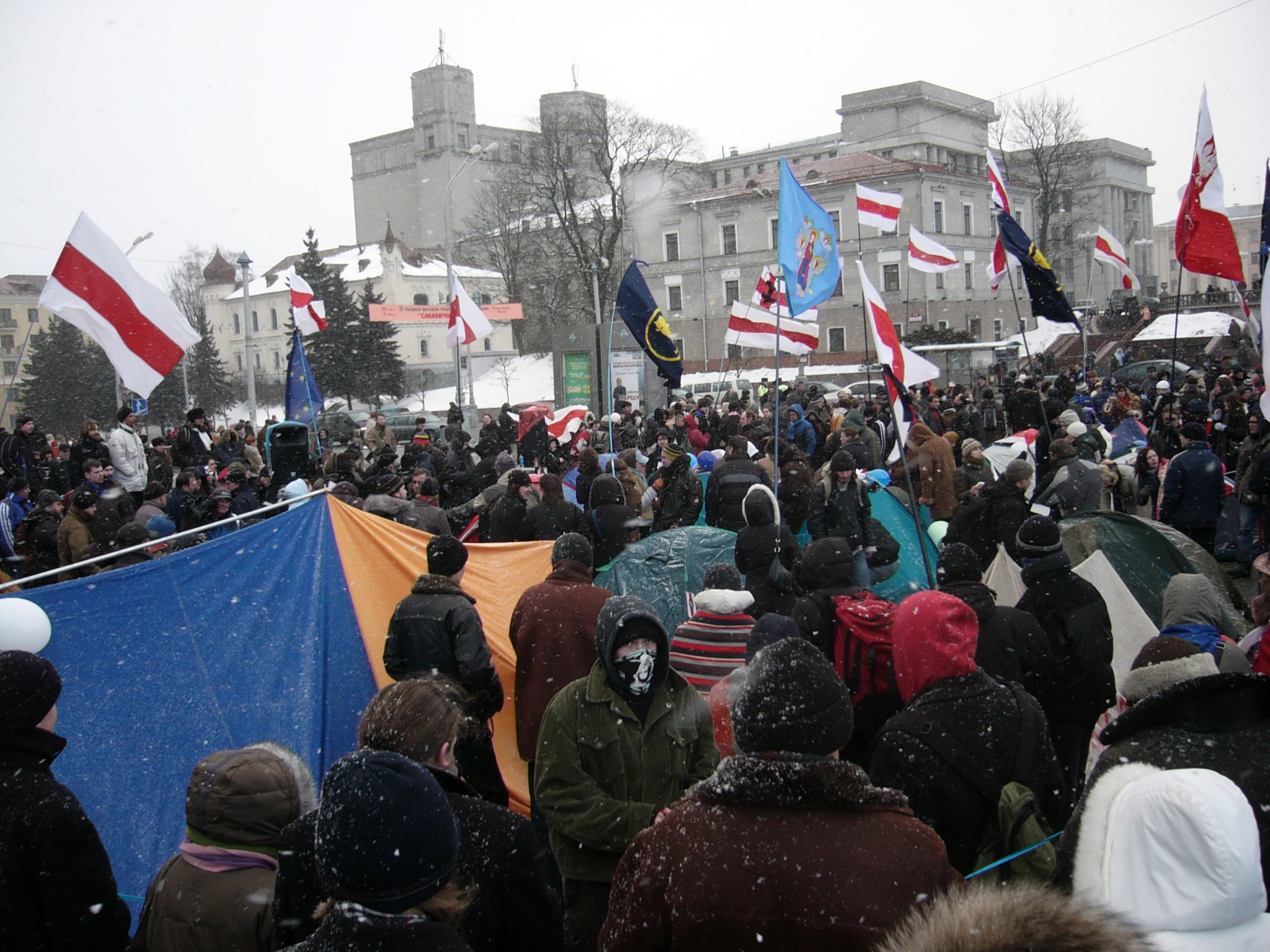 Meeting of oposition after presidental election. October square, March 21 2006 Photo by Redline